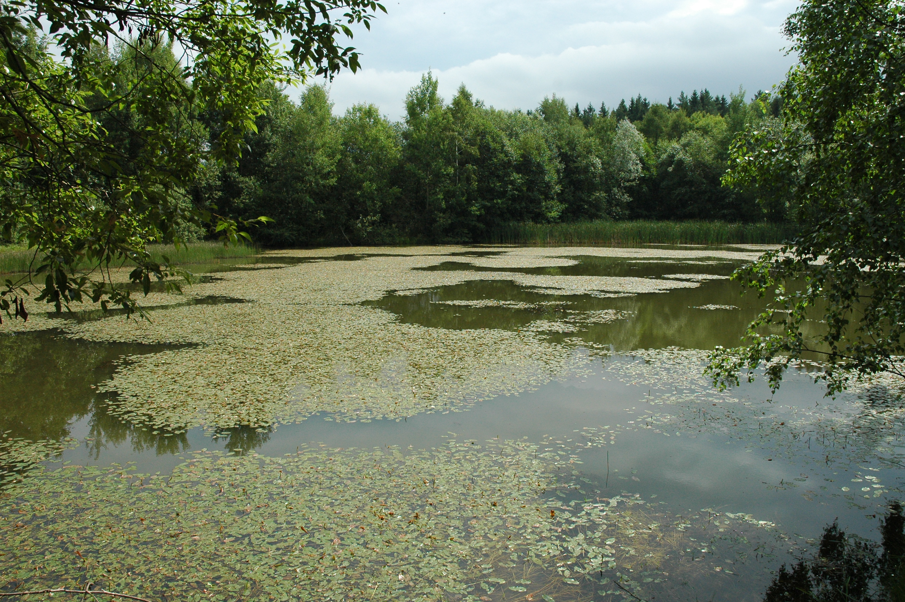 Natural monument Ratajské rybníky in Chrudim District, Czech Republic